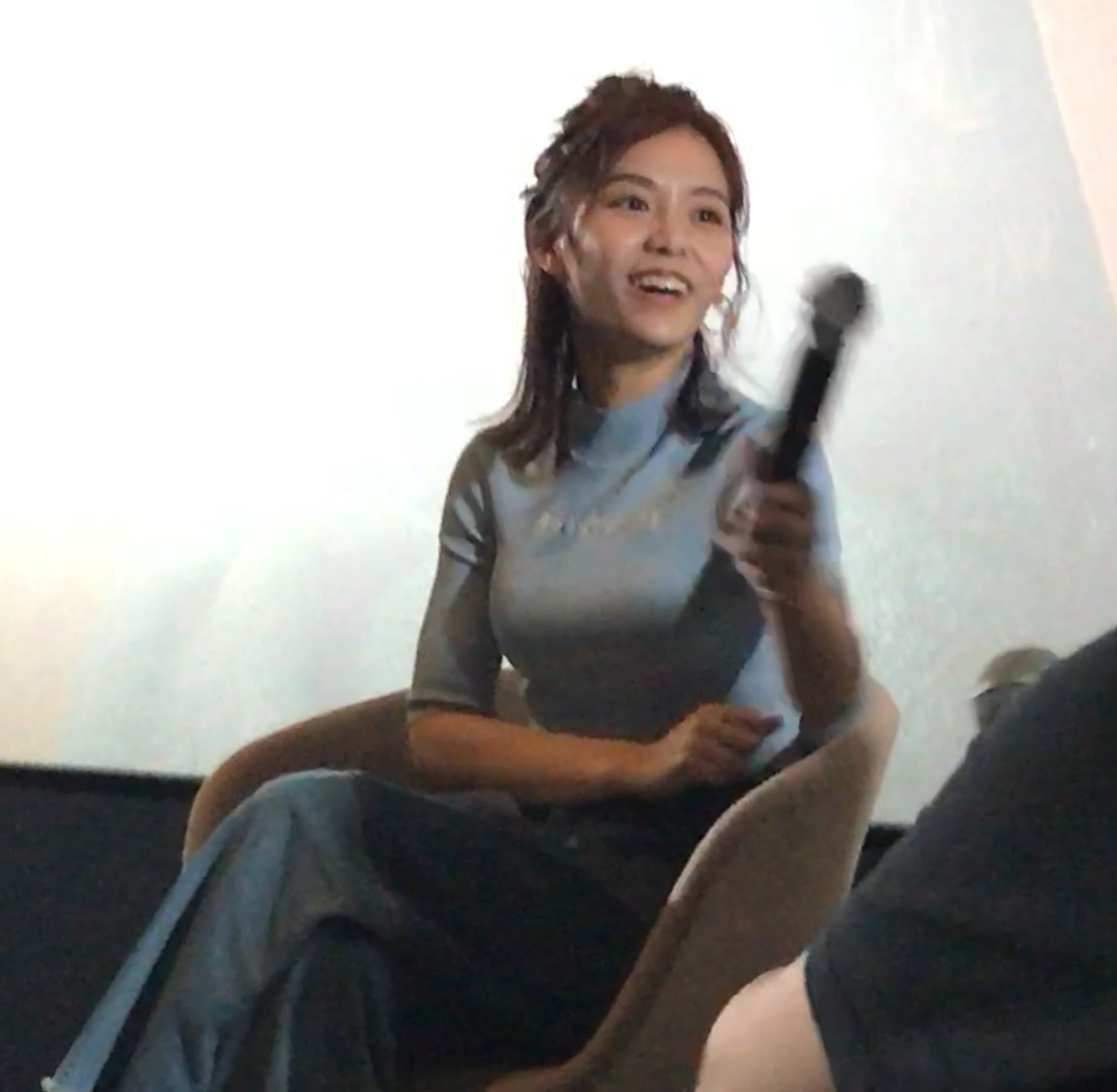 Song Yunhua at Beijing Emperor Cinema. July 28, 2018.